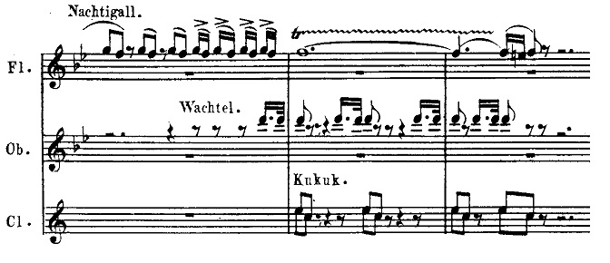 "Birds' song" from the second movement of Ludwig van Beethoven's Symphony No. 6 in F major (Pastoral)